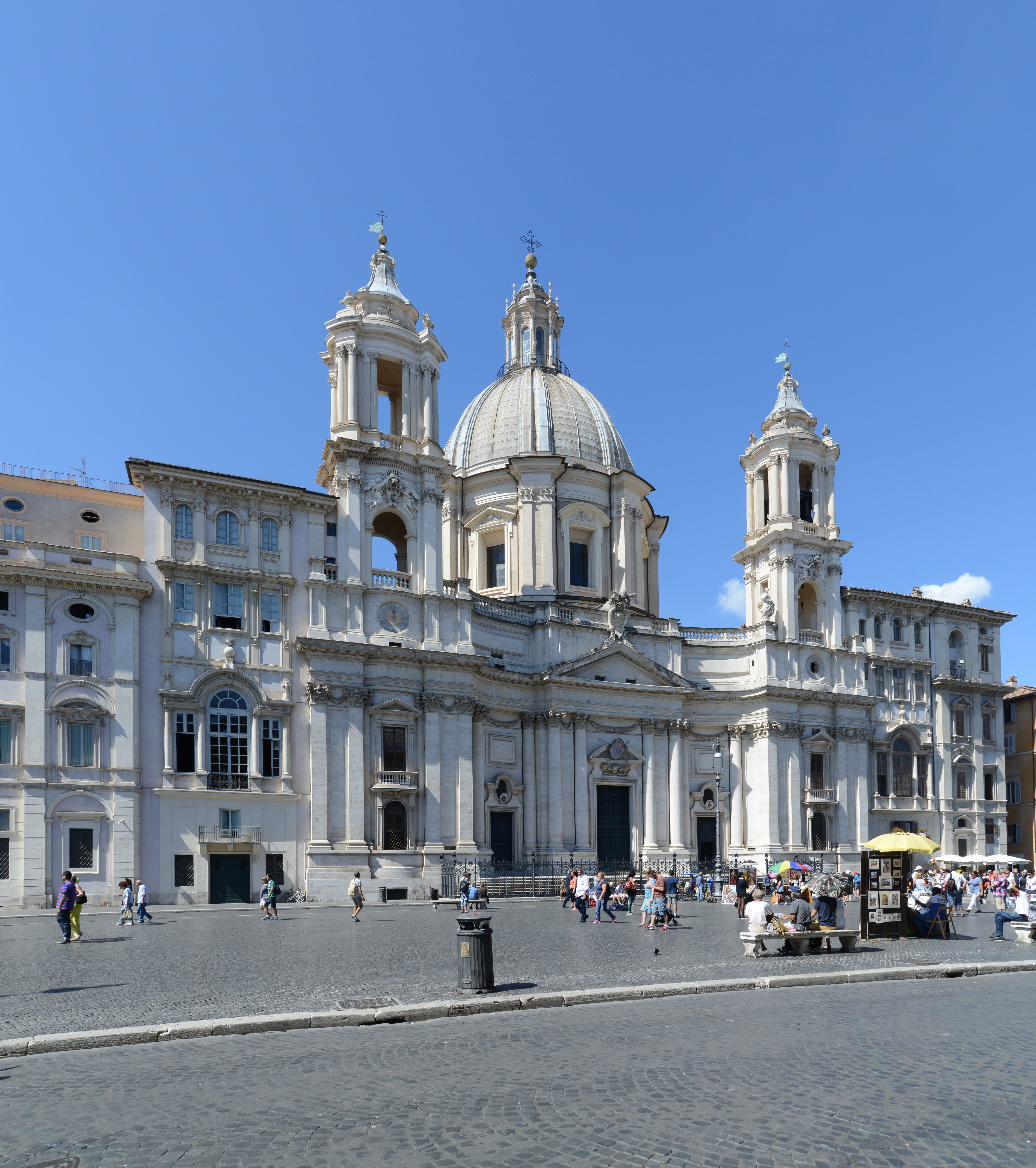 Church of Sant'Agnese in Agone (Piazza Navona) , Rome